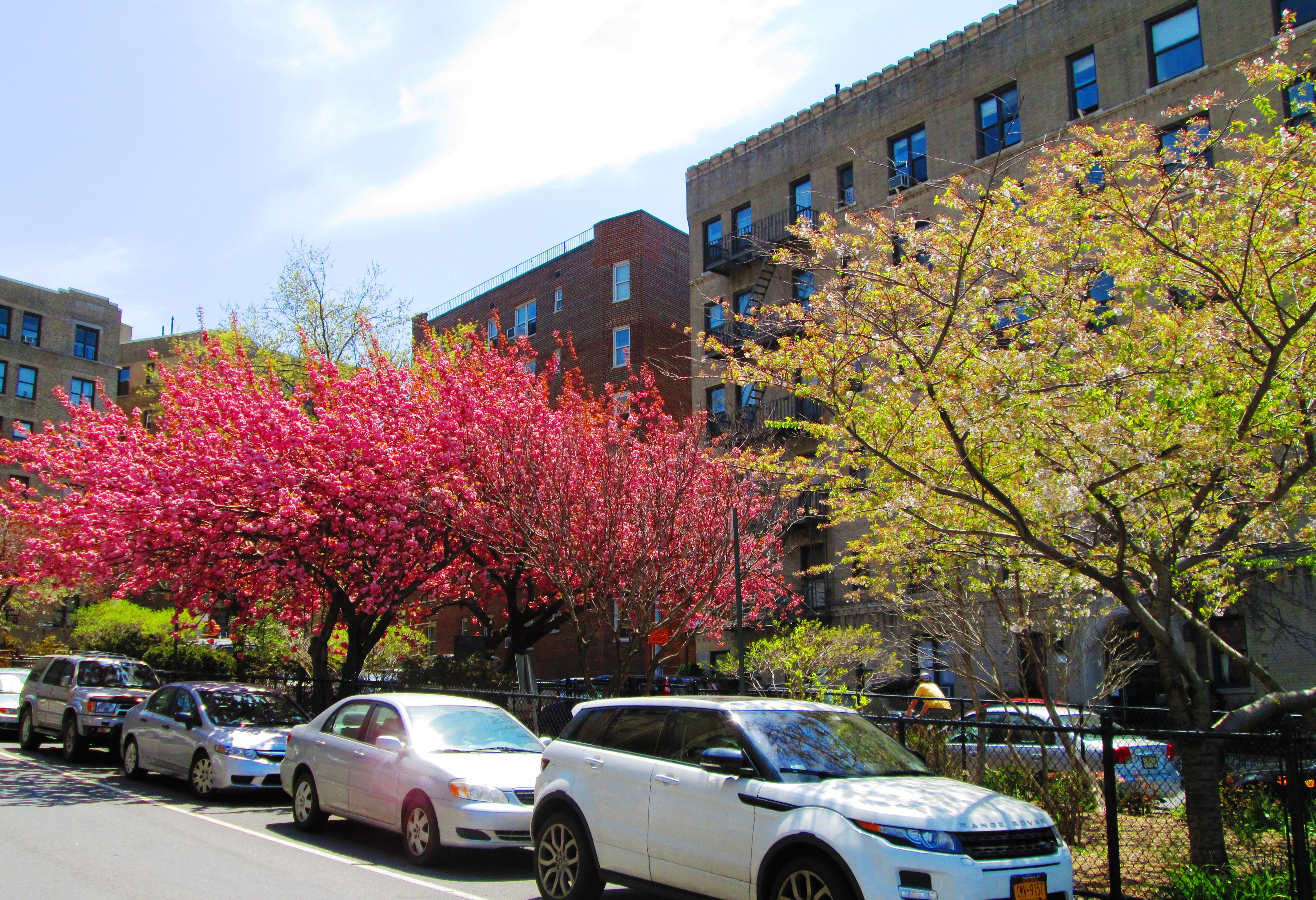 Plaza Lafayette is a small (0.09 acre) New York City park in the Hudson Heights neighborhood of Manhattan, New York City. Named after the Marquis de Lafayette, the French hero of the American Revolution, the parklet is roughly trapezoidal in shape, and is bounded by Riverside Drive on the west (originally called Boulevard Lafayette), the westbound lane of West 181st Street on the north, the eastbound lane of West 181st Street on the south, and Haven Avenue on the east. The land was acquired by the city on February 23, 1918. The parklet, which is located near the highest natural point in Manhattan (in Bennett Park, about 5 blocks away) has unobstructed views of the George Washington Bridge, the Palisades, and the Hudson River. (Source: "Plaza Lafayette" on the NYC Parks Dept. site)